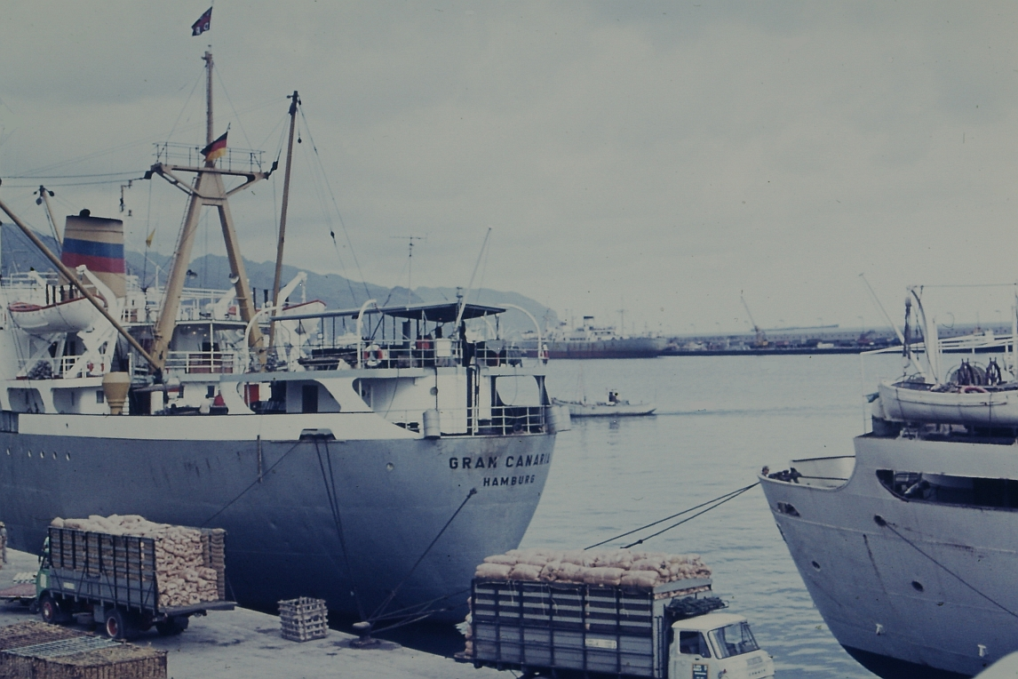 MS Gran Canaria of the Oldenburg-Portuguese Steamship Company (OPDR) in the port of Santa Cruz of Tenerife, Tenerife - 1970 - usually had the German flag at the port may not be set at the gaff, but aft on the flagstaff.